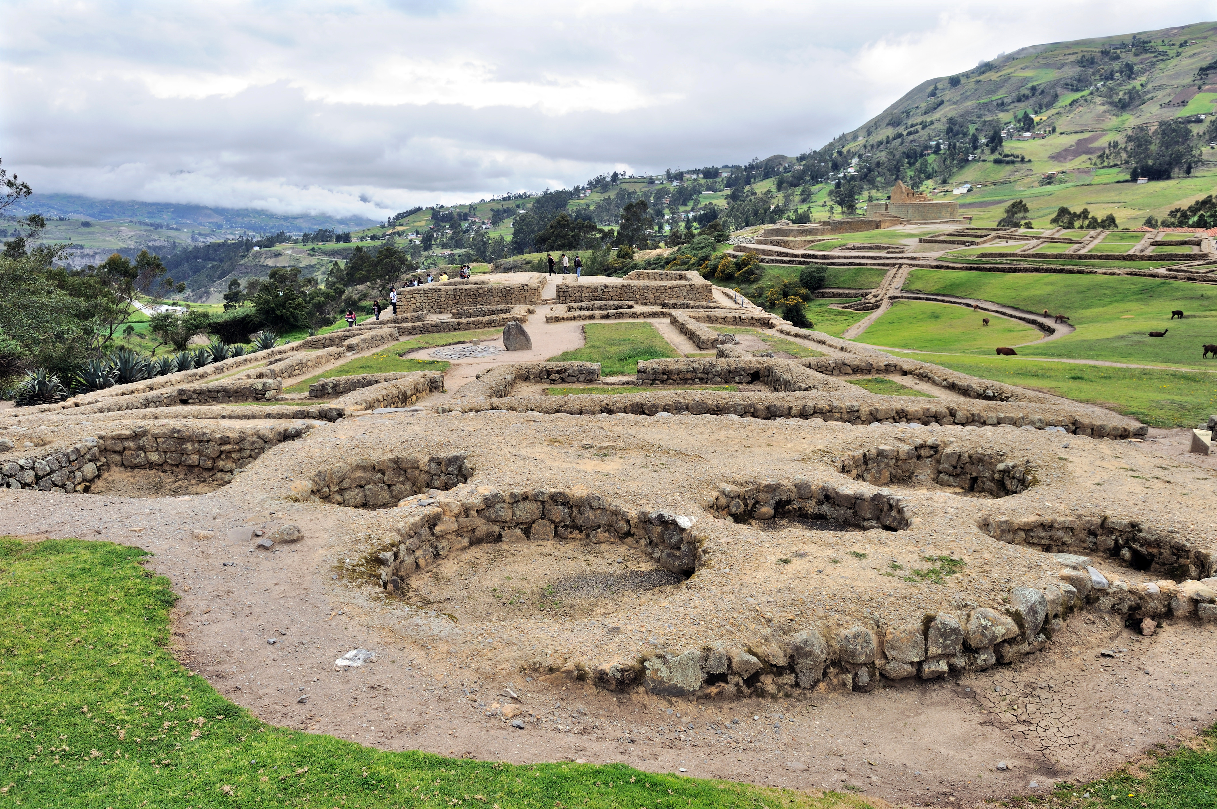 Ingapirca, Ecuador, Cañari-Incan ruins. In the foreground: food storage chambers of the Cañaris.